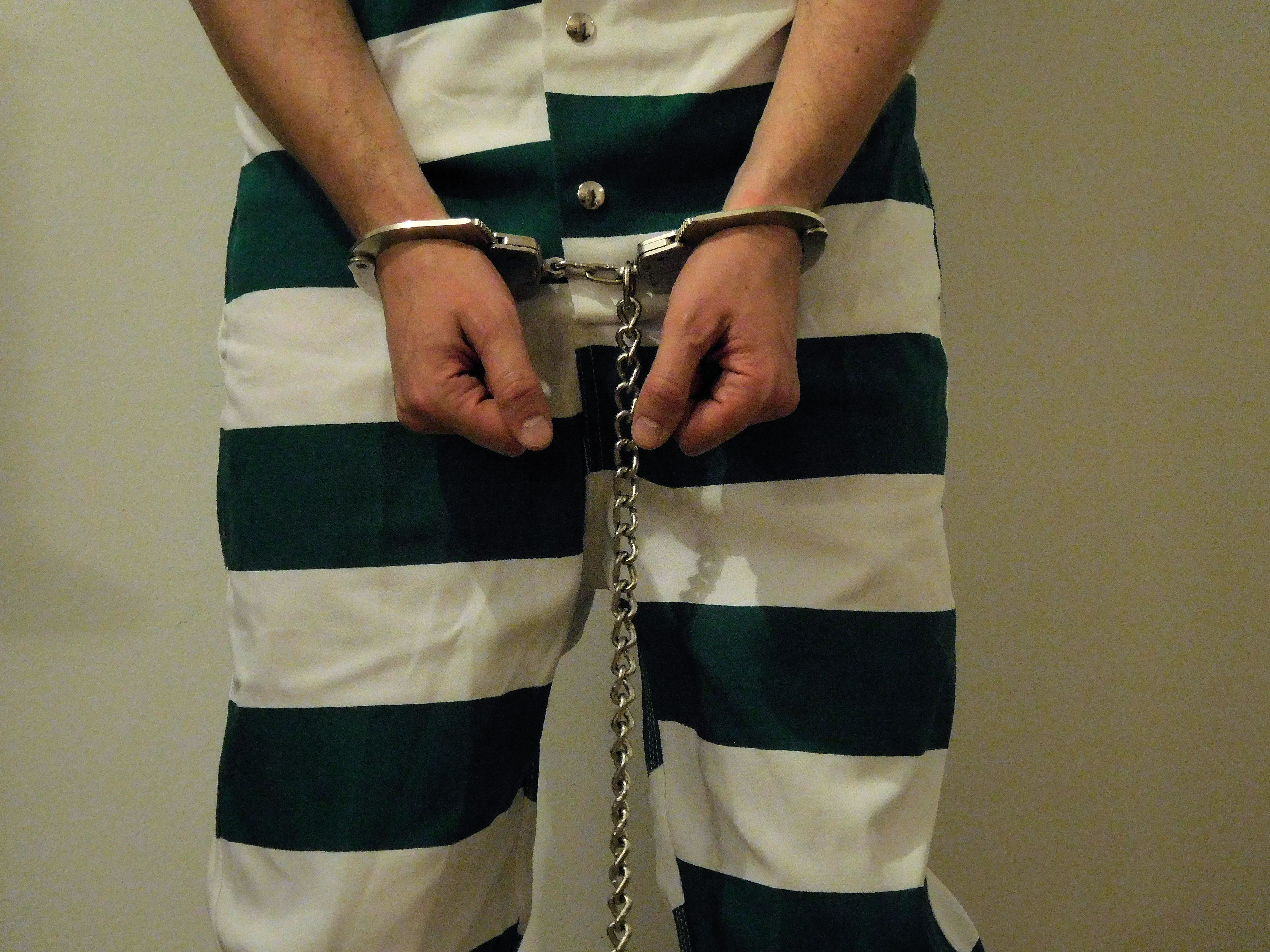 Prisoner in Smith & Wesson Model 1850 transport restraint chains. These consist of a pair of Model 1 handcuffs joined together with a pair of Model 1900 leg irons by a chain running down from the handcuffs to the leg irons.